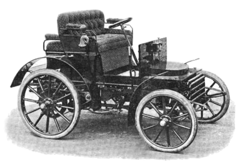 Augé (automobile). Approx model year: 1900.